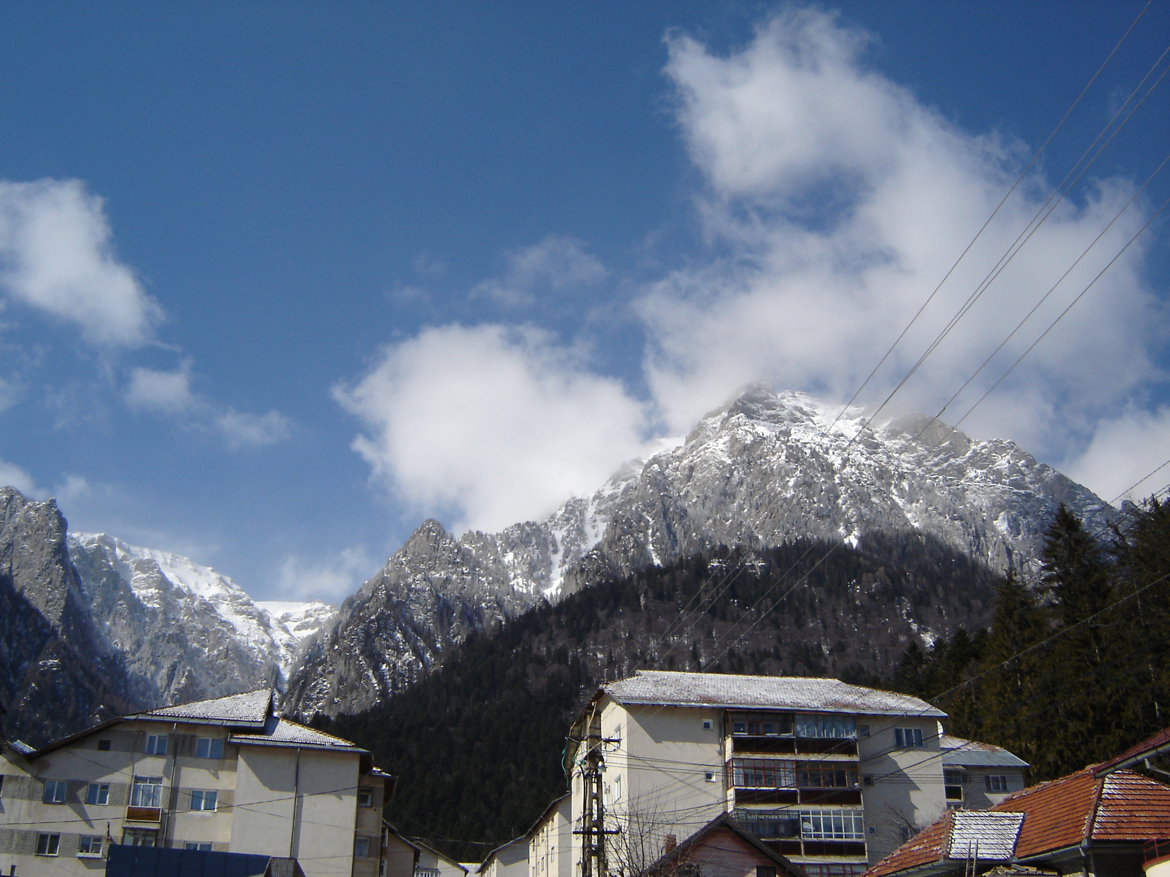 Caraiman Peak viewed from Buşteni